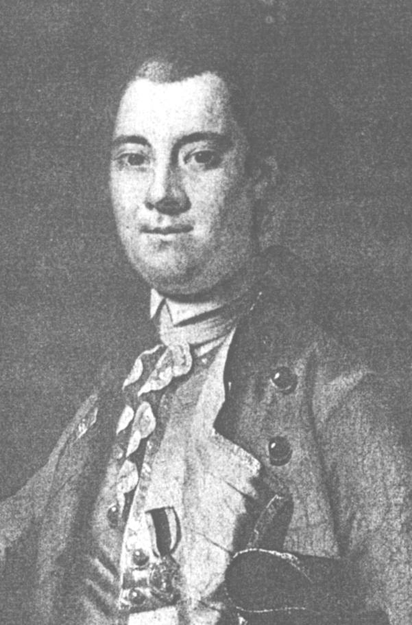 Only known likeness of Gov. William Tryon. After additional research, it has been found that this in fact is not a portrait of Governor William Tryon. To date, no likeness has been found.